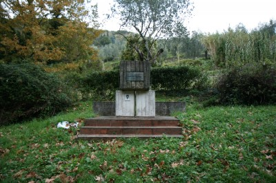 Monument to Adelmo Santini